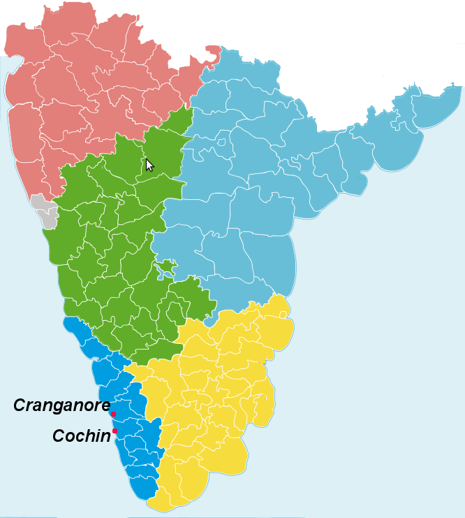 Map of Cranganore and Kochi, first and second place were Jews of malabar inhabit.